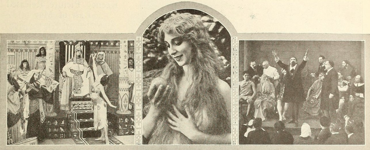 American movie Restitution (1918) - publicity still (cropped), with Pomeroy Cannon as Pharaoh (left) and Lois Gardner as Eve (center). This is the only film Gardner is listed as being in. The film was subject to censorship due to its nudity, the required cuts in Chicago are listed on page 30 of the 25 May 1918 The Exhibitors Herald.